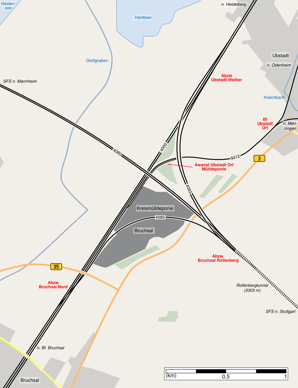 map of Bruchsal rollenberg branch with surroundings.